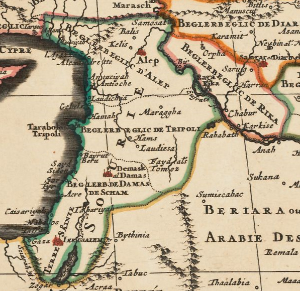 Map of Syria in the Ottoman Empire in 1600.